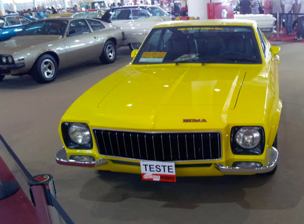 1974 Puma GTB - chassis no 1, and the original Quatro Rodas' test car. In the background a later GTB-S2 can be seen.